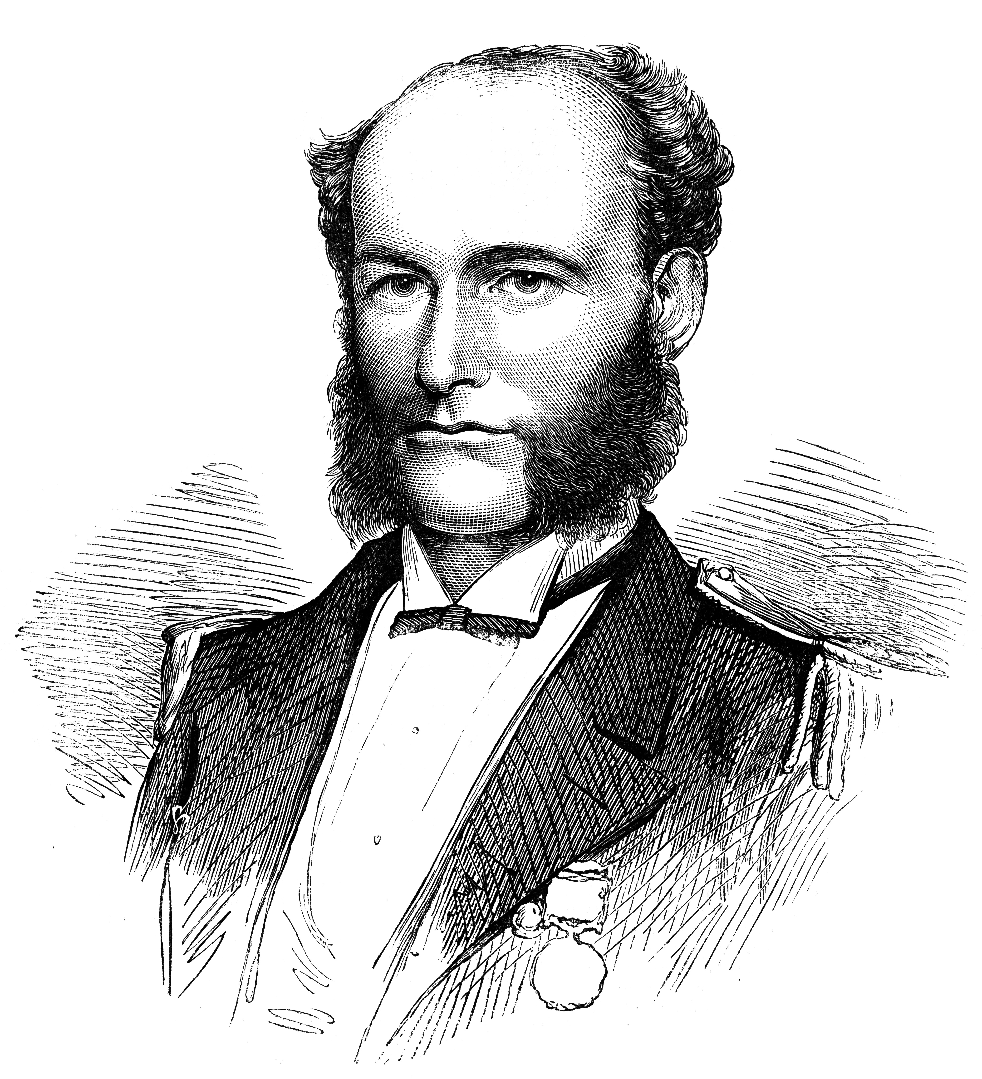 Portrait of William Henry Panter (1841–1915), first commander of the breastwork monitor HMVS Cerberus